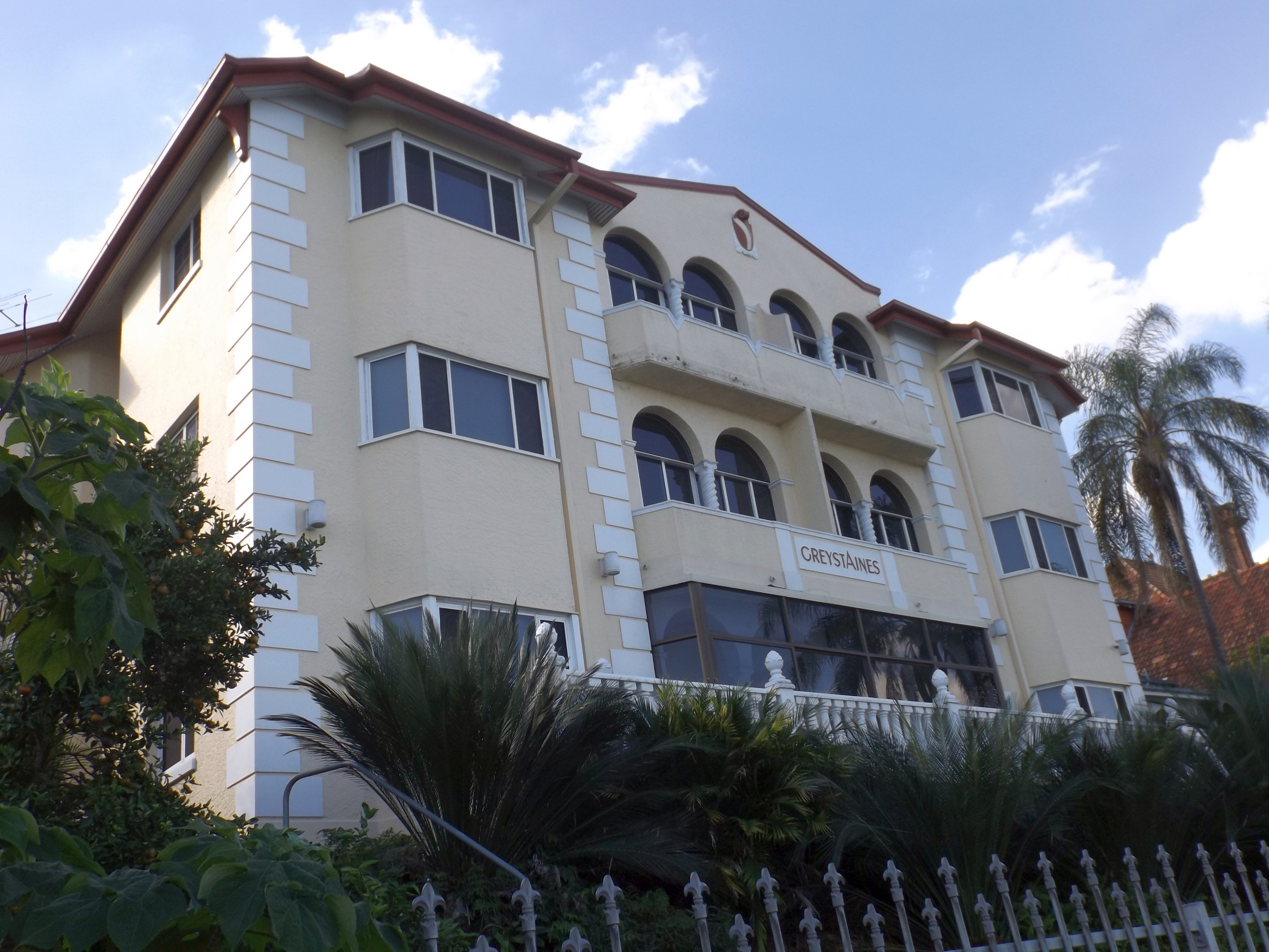 Photo of Greystaines apartments at Hamilton, Brisbane, Queensland, Australia.